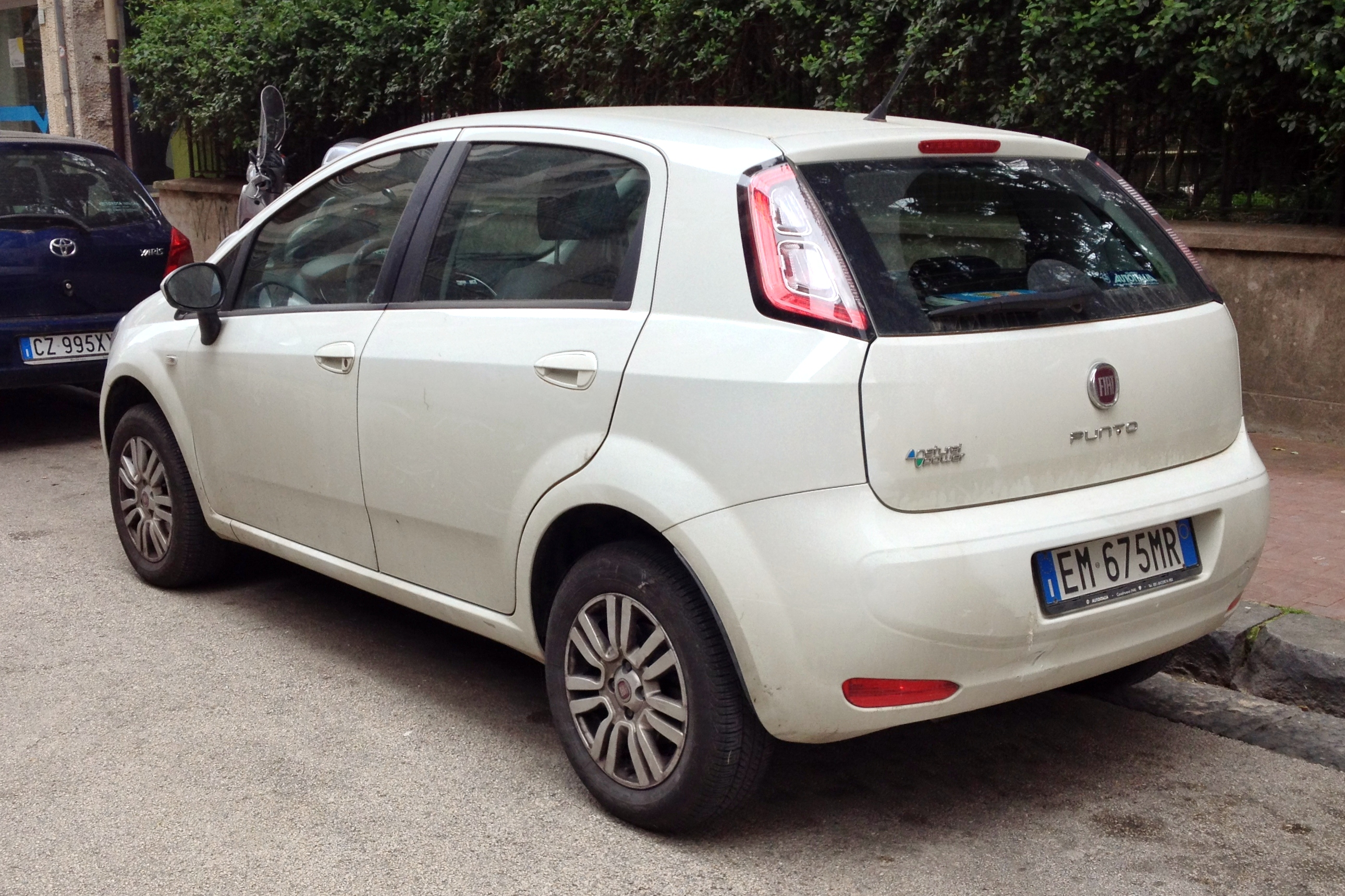 Fiat Punto 1.4 Natural Power 2012 5door